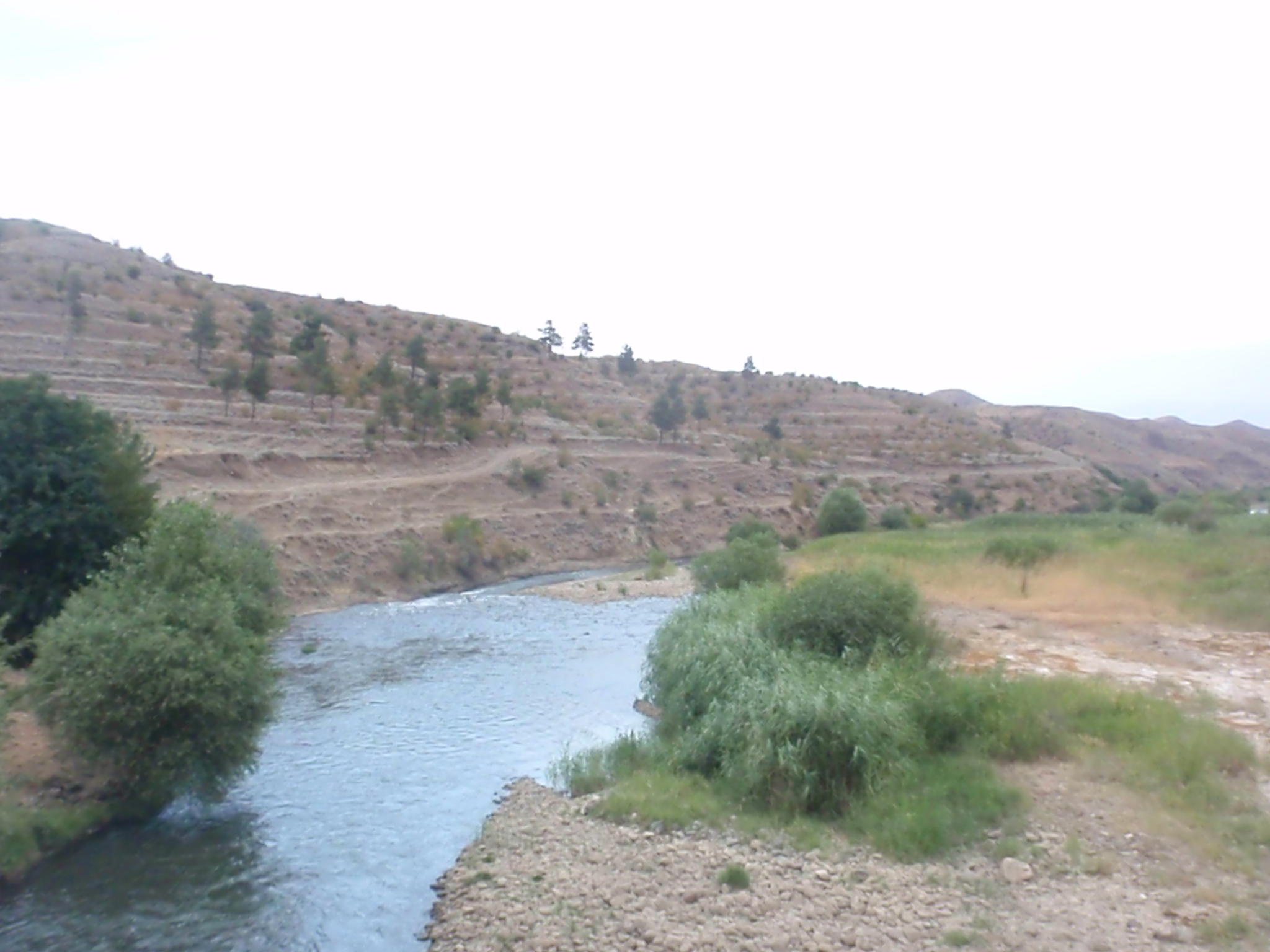 Voghji river in Kovsakan. Location: Kovsakan city, Kashatagh district, Republic of Mountainous Karabakh (Artsakh).